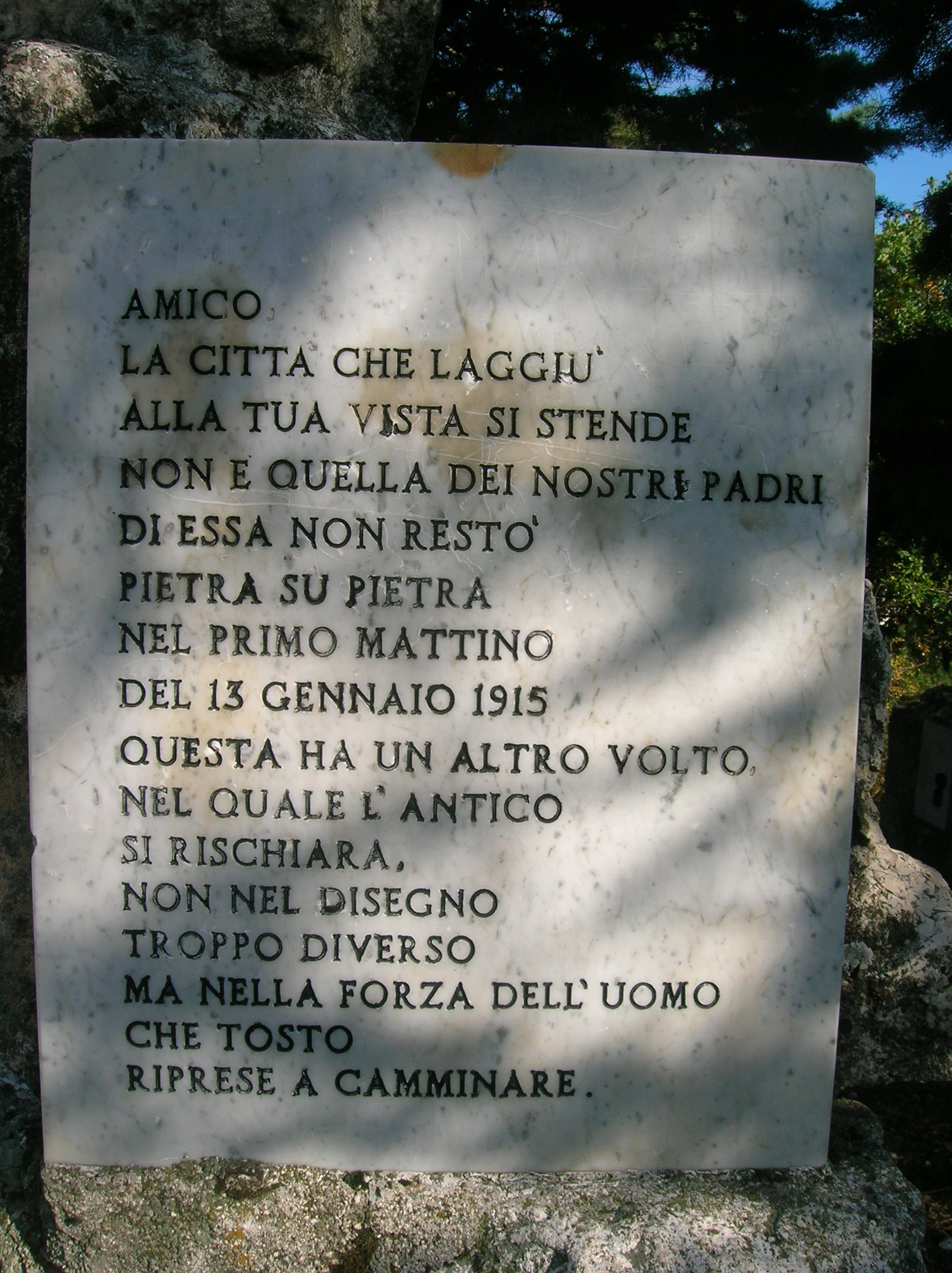 Particular of the memorial to the victims of the 1915's earthquake on Mount Salviano, Avezzano (Province of L'aquila, Abruzzo, Italy).Unknown